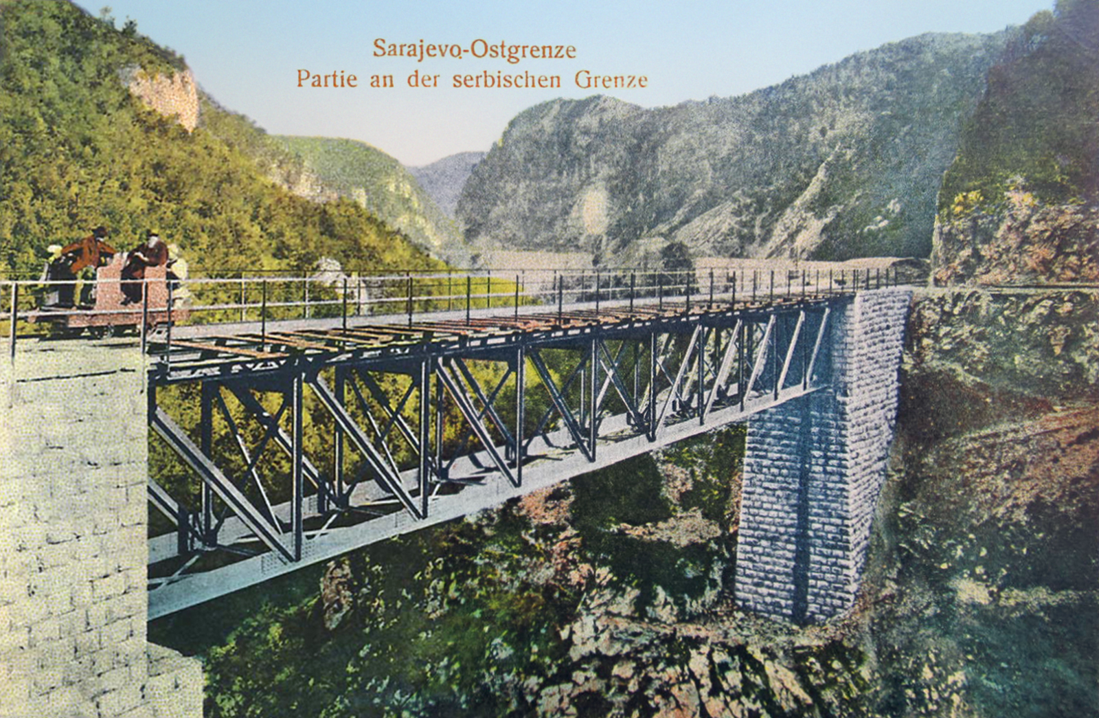 Visual inspection of the railway prior to its opening in 1906 with a crew on the bridge over the creek Dobrik between Dovlići and Pale.